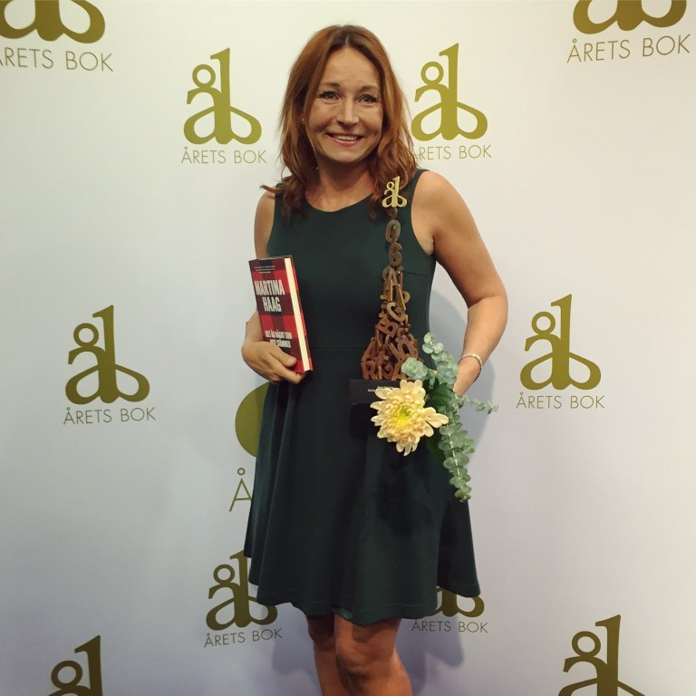 Martina Haag